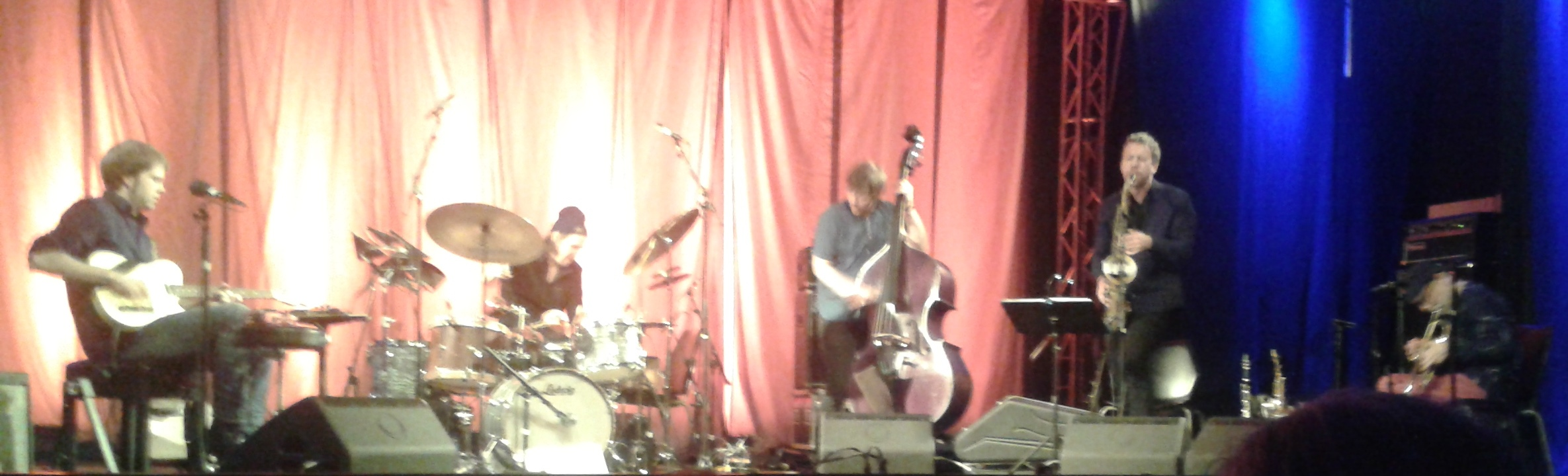 Stein Urheim at Vossajazz 2016.